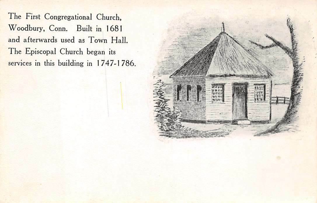 POSTCARD: WOODBURY, CT, TOWN'S FIRST CONGREGATIONAL CHURCH, WOODBURY DRUG PUB c. 1907-14